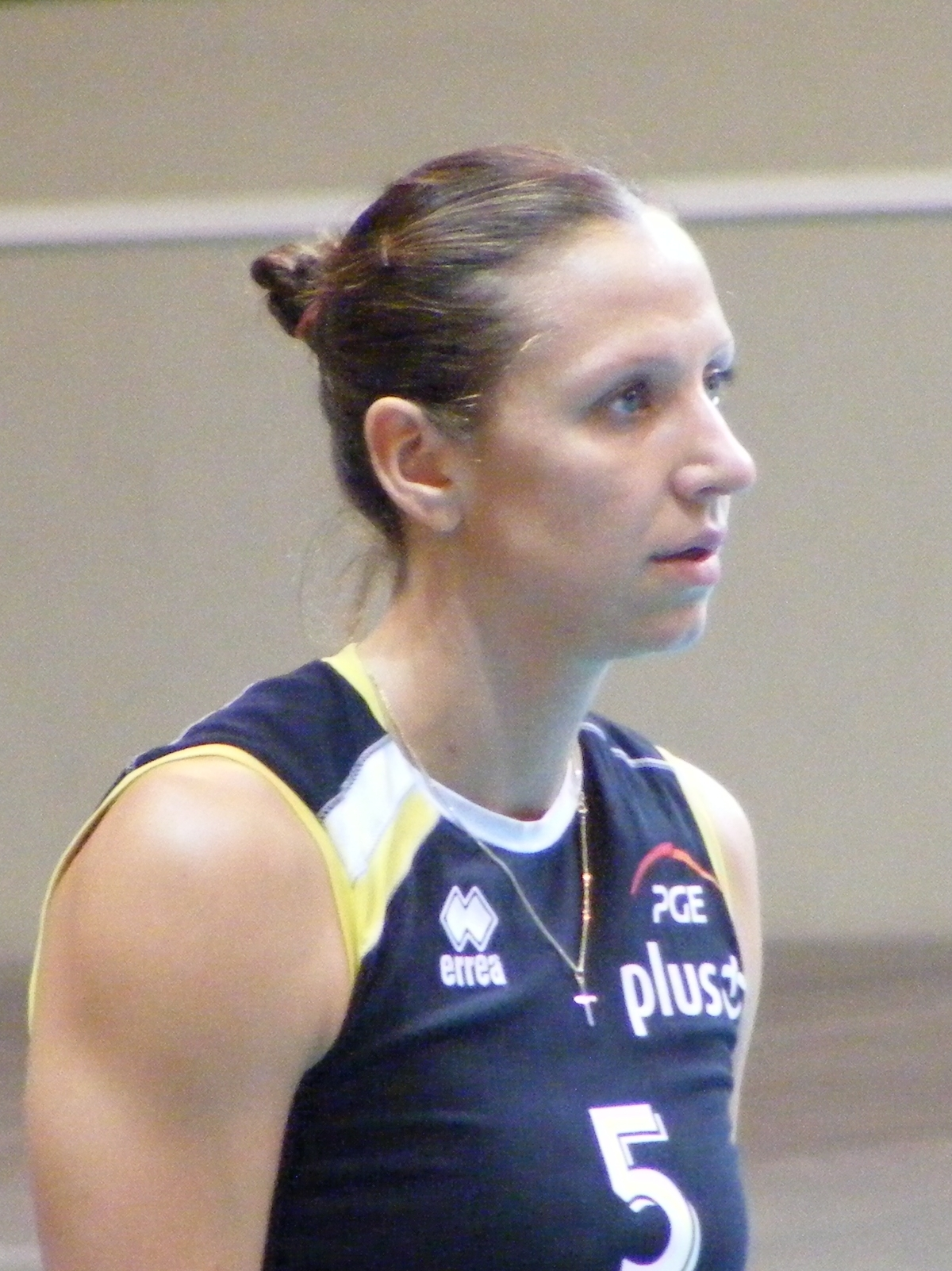 Kinga Maculewicz-De La Fuente, french volleyball player, of polish ancestry